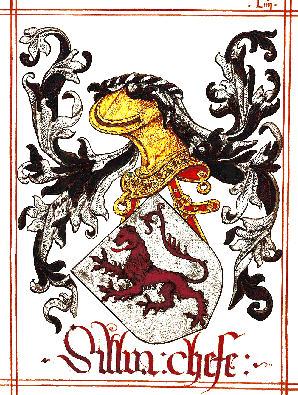 House of Silva